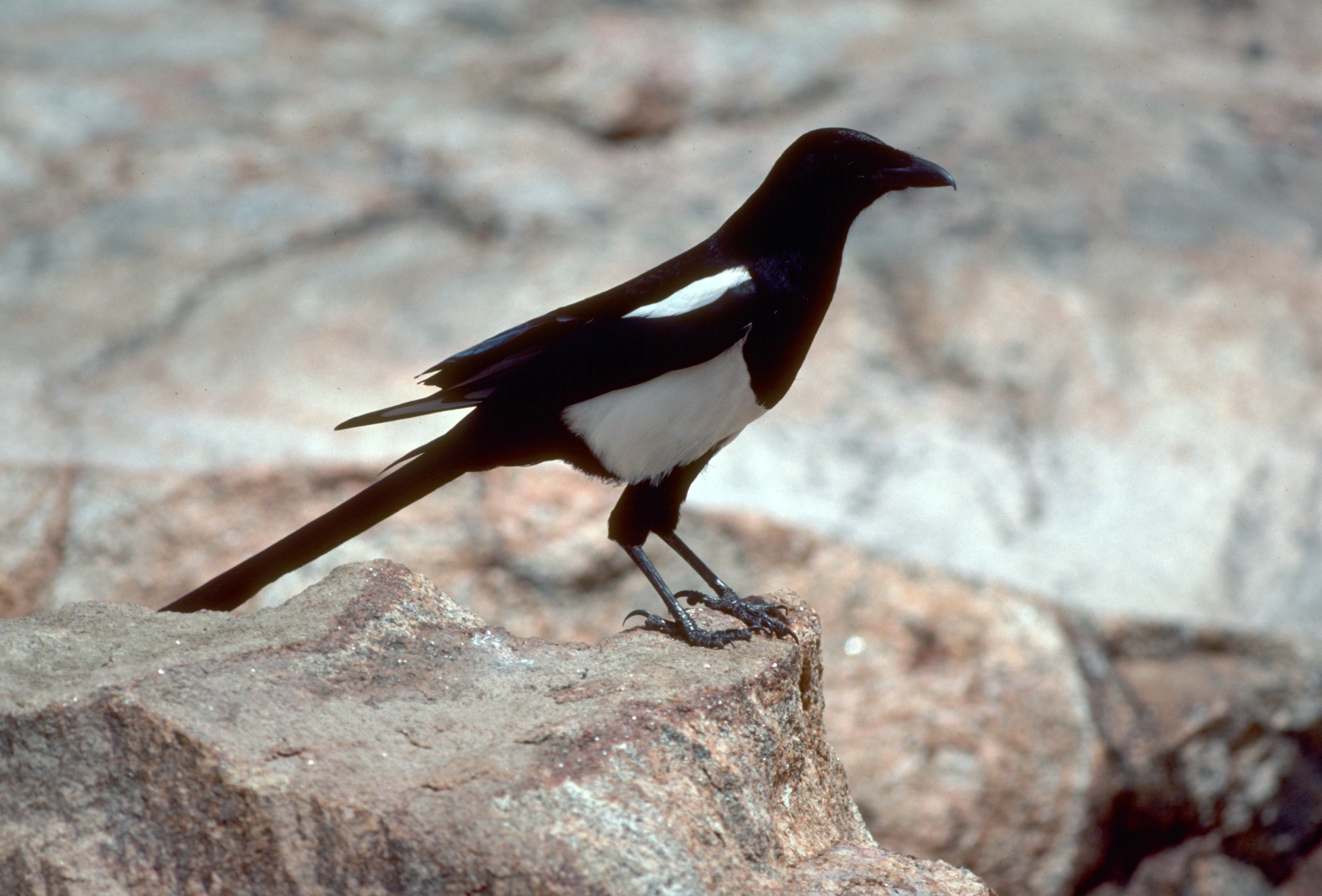 This living showcase of the grandeur of the Rocky Mountains, with elevations ranging from 8,000 feet in the wet, grassy valleys to 14,259 feet at the weather-ravaged top of Longs Peak, provides visitors with opportunities for countless breathtaking experiences and adventures.